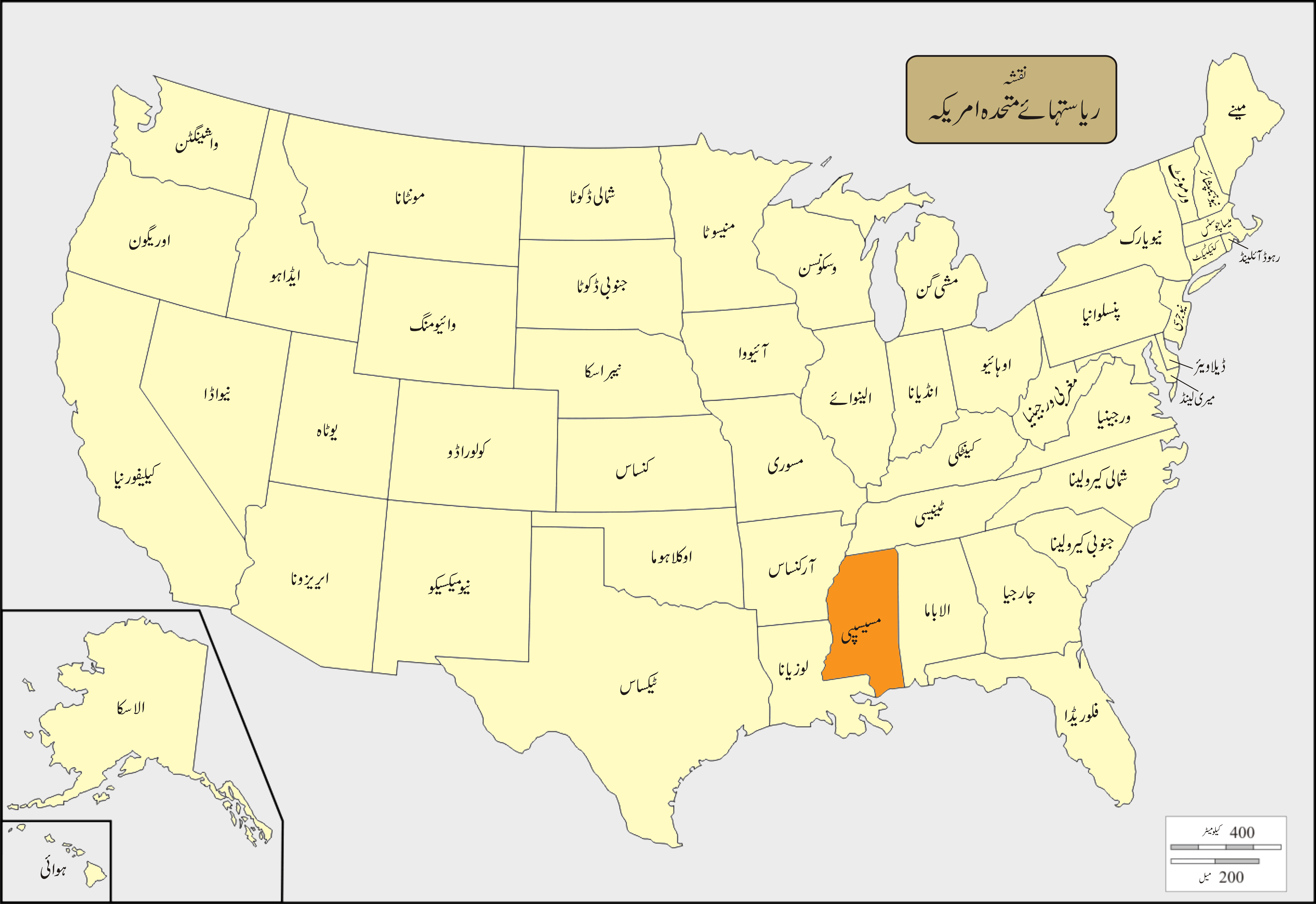 USA Names Mississippi